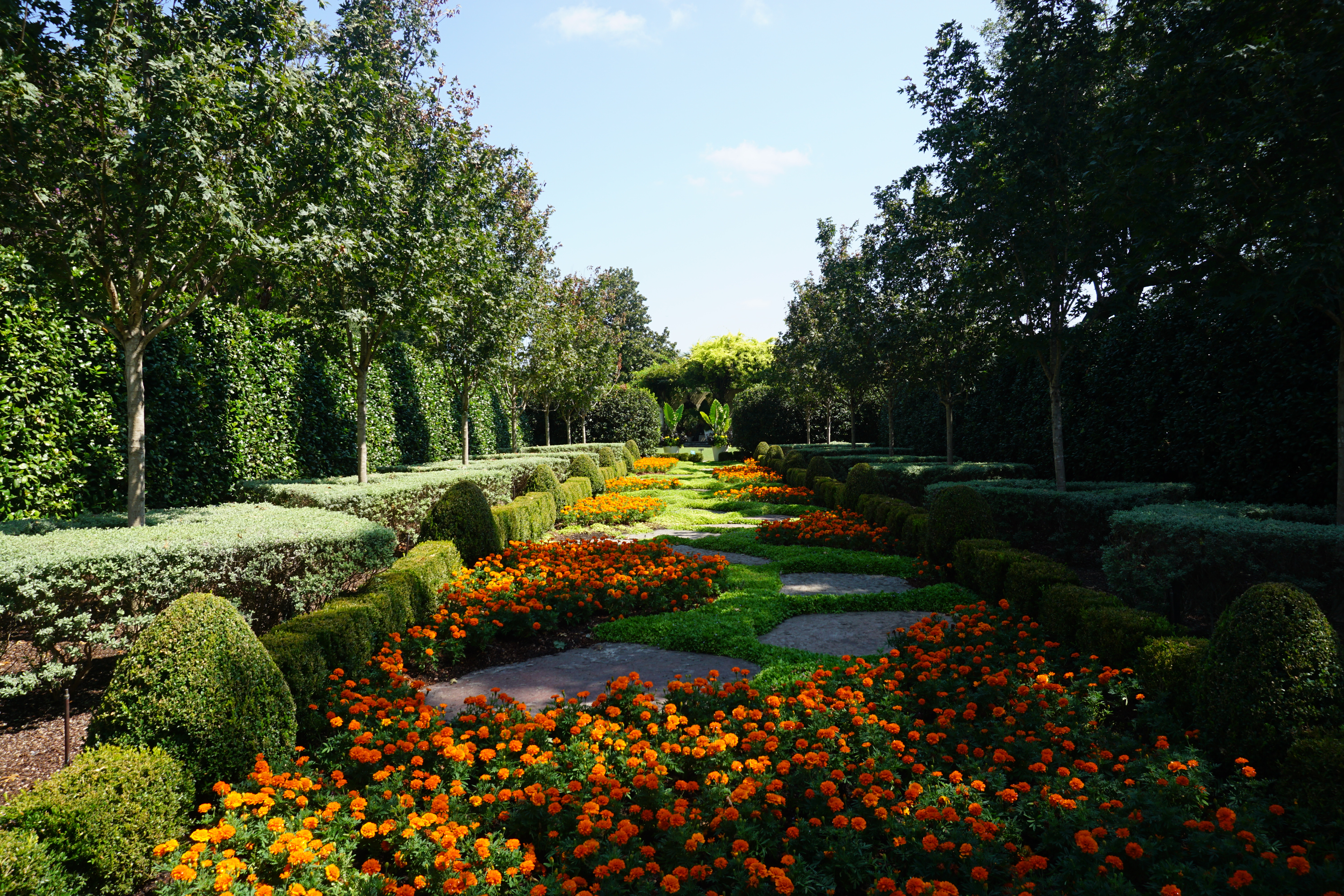 The Lay Family Garden at the Dallas Arboretum and Botanical Garden in Dallas, Texas (United States).